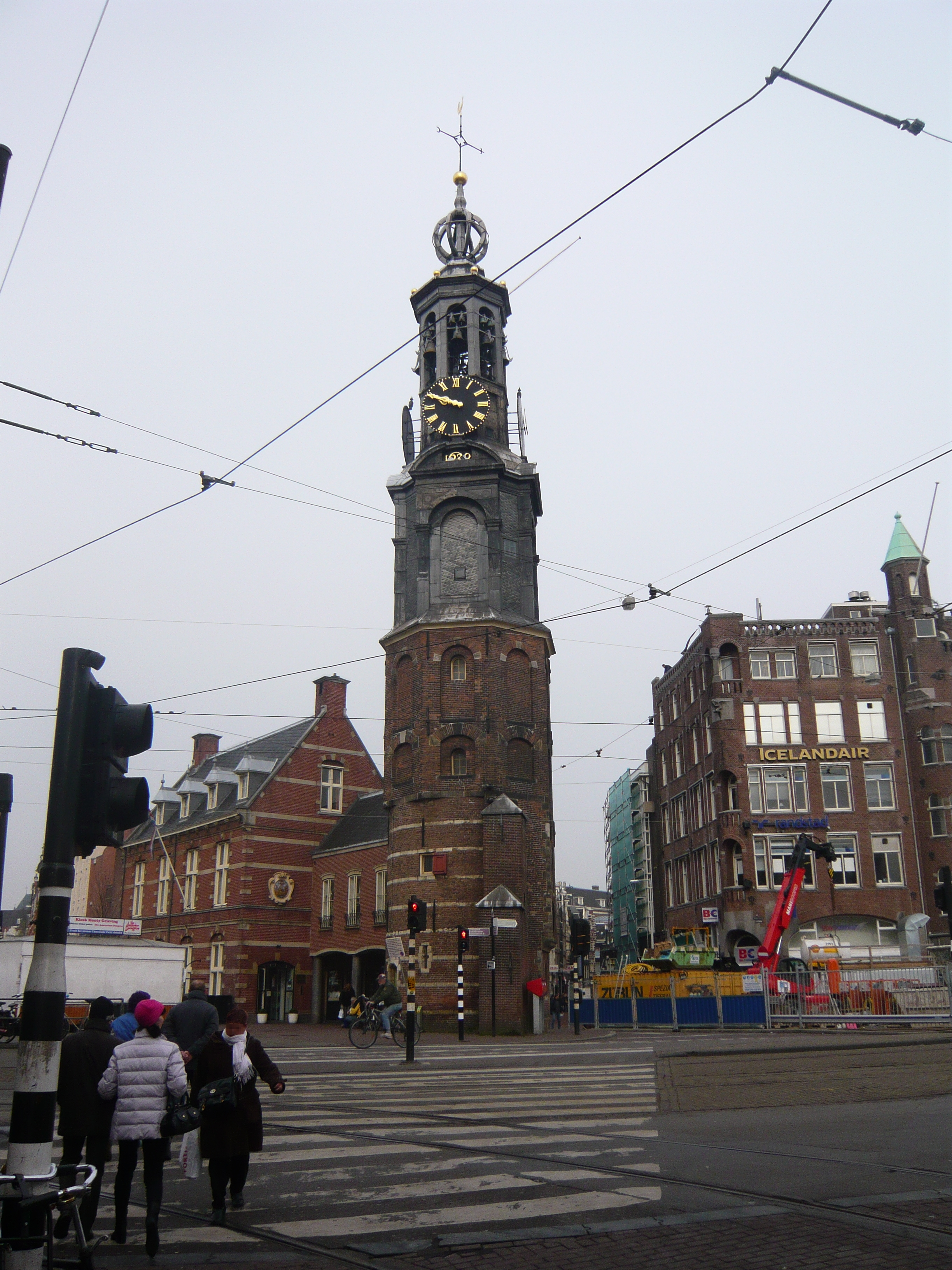 Munttoren, Amsterdam, Netherlands